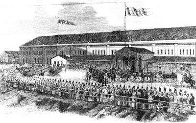 Opening ceremony of the Pest-Szolnok railway line